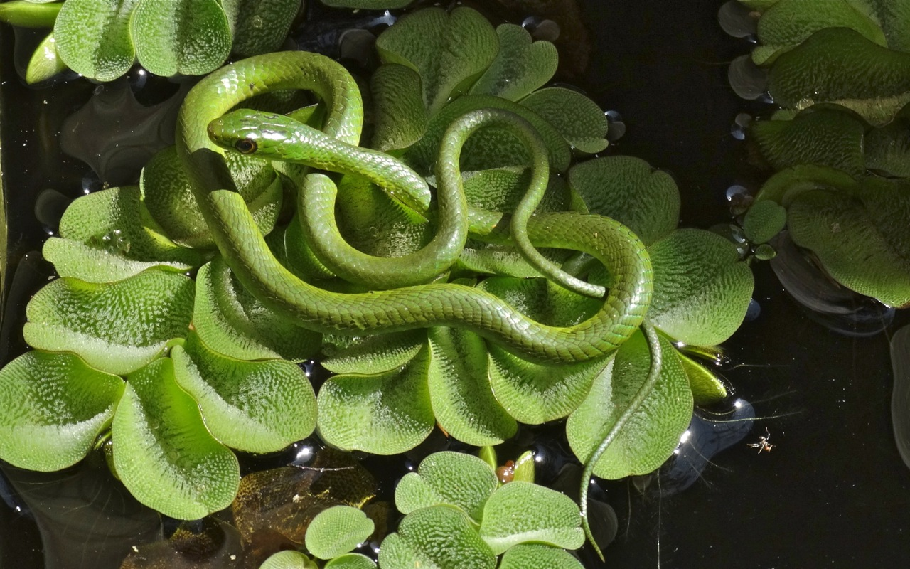 Young Battersby's green snake (Philothamnus battersbyi) photographed in Nanyuki, Kenya.